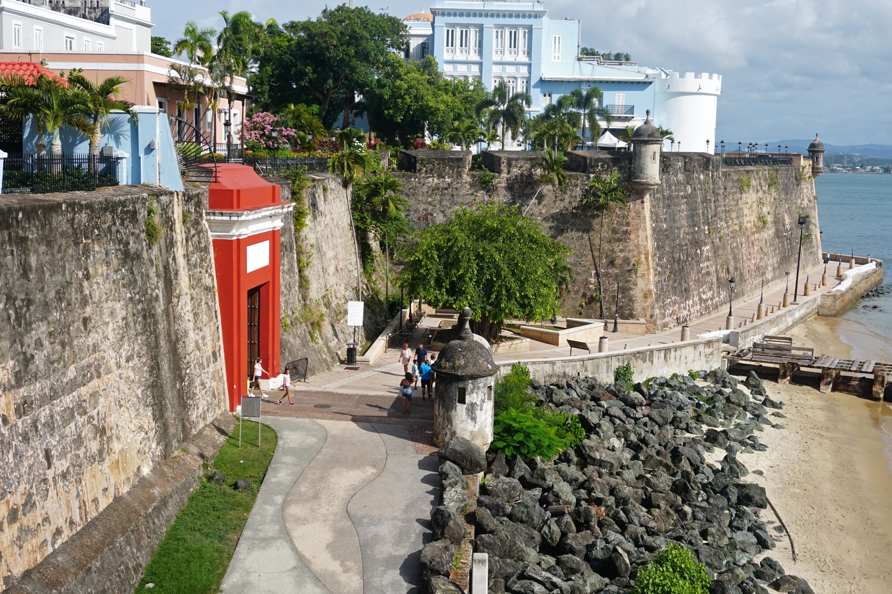 San Juan Gate from the top of the wall. It used to be the main entrance to the city through the walls during the Spanish Colonial times. Old San Juan, Puerto Rico